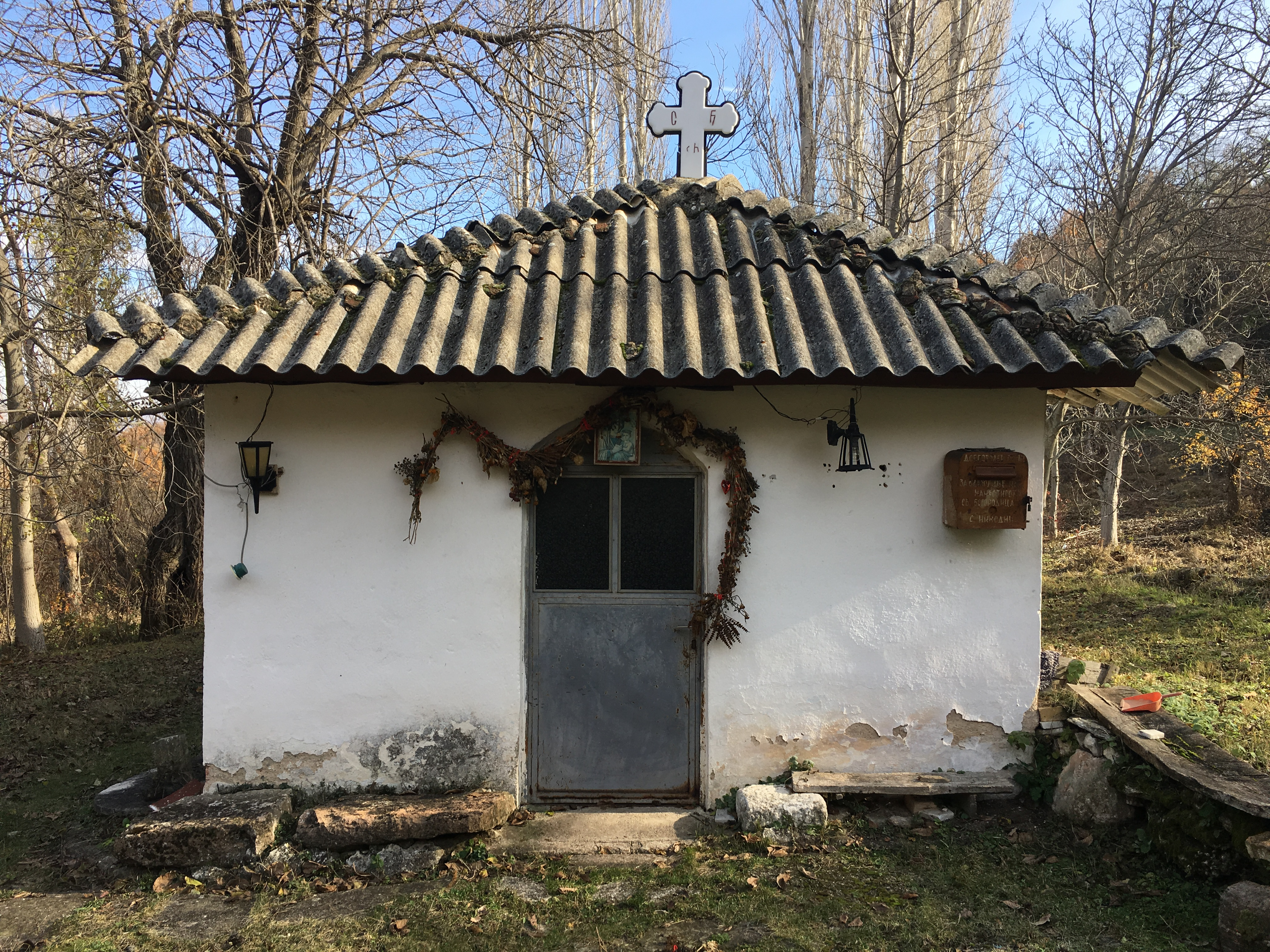 Holy Trinity Church in the Nikodin Monastery